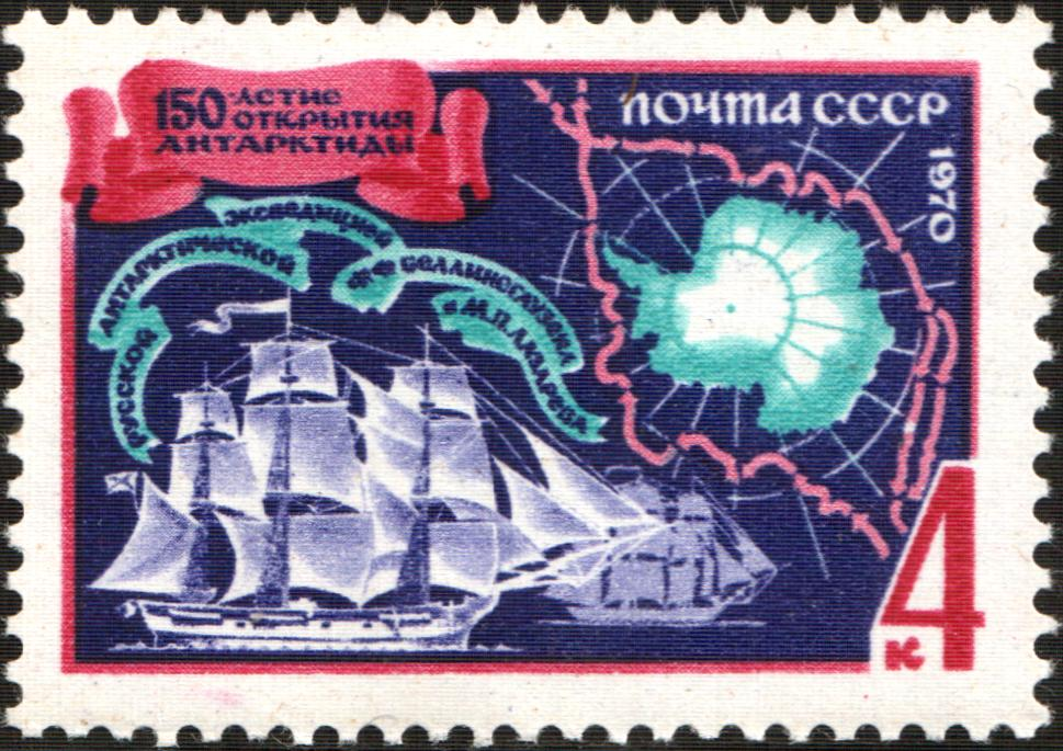 USSR stamp: Sloops-of-war "Mirny" and "Vostok" and Antarctic Map. Series: 150th Anniversary of Discovery of Antarctic Mainland Russian Round-the-world High-altitude Expedition by Fabian Gottlieb von Bellingshausen and Mikhail Lazarev (1820.01.28)